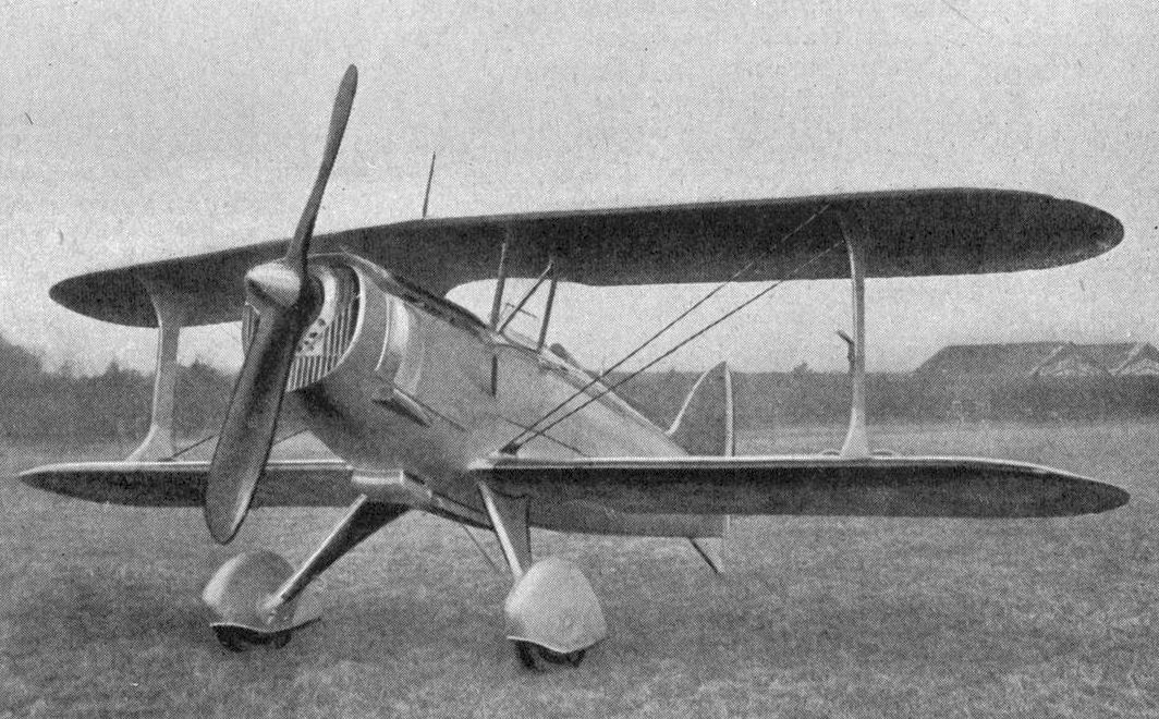 SPAD 510 photo from L'Aerophile January 1938